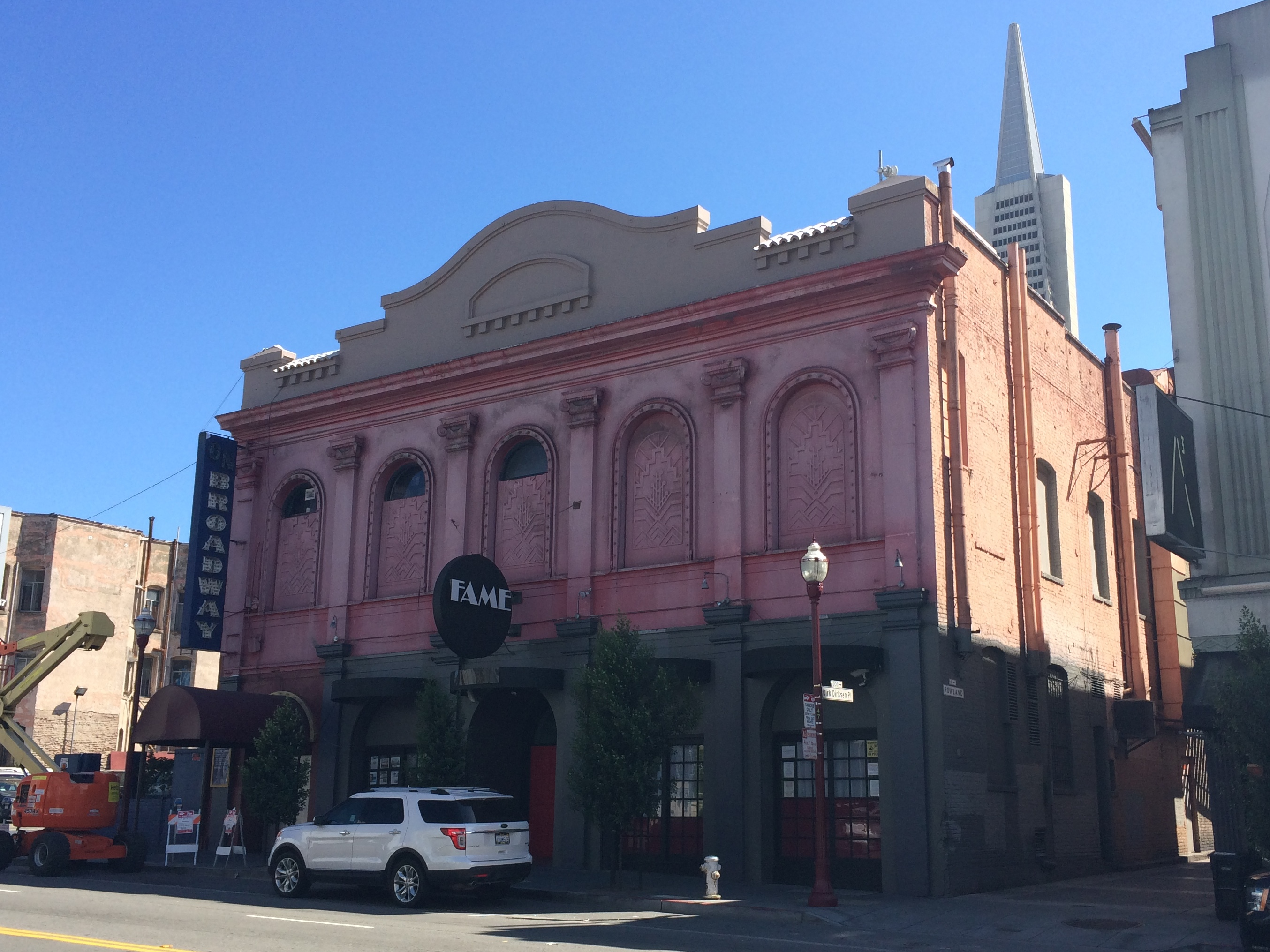 Broadway Studios at 435 Broadway Street and Fame Venue at 443 Broadway Street in San Francisco. Constructed in 1919 as the Garibaldi Hall, called the Mabuhay Gardens in the 1970s, later the On Broadway Theater.